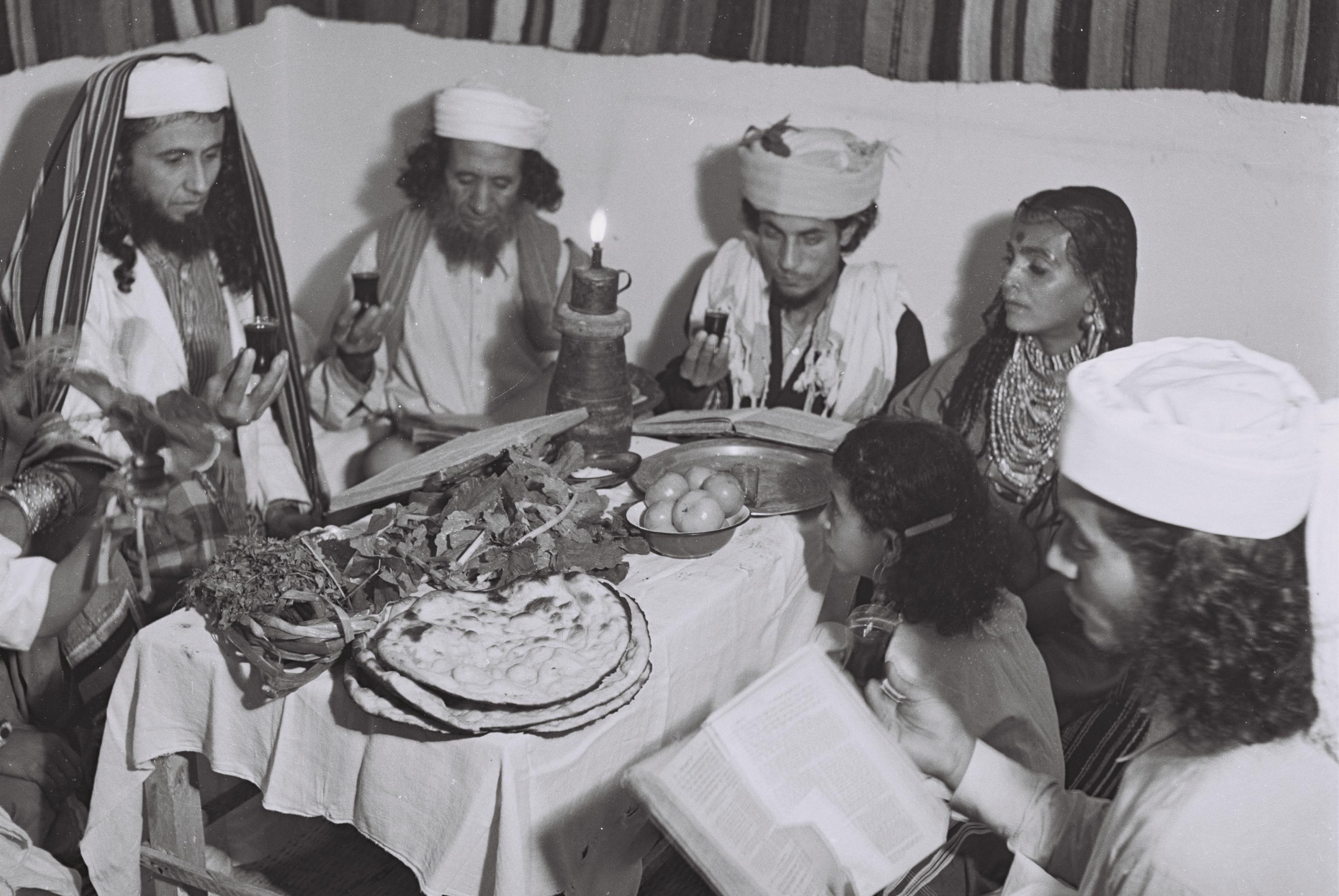 A Yemenite Habani family celebrating Passover in their new home in Tel Aviv. משפחה תימנית חבאנית חוגגת את פסח בביתה החדש בתל אביב Photo: Zoltan Kluger (1896–1977) Alternative names Qlwger, Zwlṭan; Zolṭan Ḳluger; Kluger, Z.; W. von Szigethy; W. Von SzighethyDescriptionHungarian-Israeli photographerDate of birth/death 8 February 1896 16 May 1977Location of birth/death Kecskemét ManhattanAuthority control : Q7035699 VIAF: 19504001 ISNI: 0000 0000 6686 1613 ULAN: 500483392 LCCN: no2008144265 Open Library: OL6614008A WorldCat creator QS:P170,Q7035699 , 04/01/1946